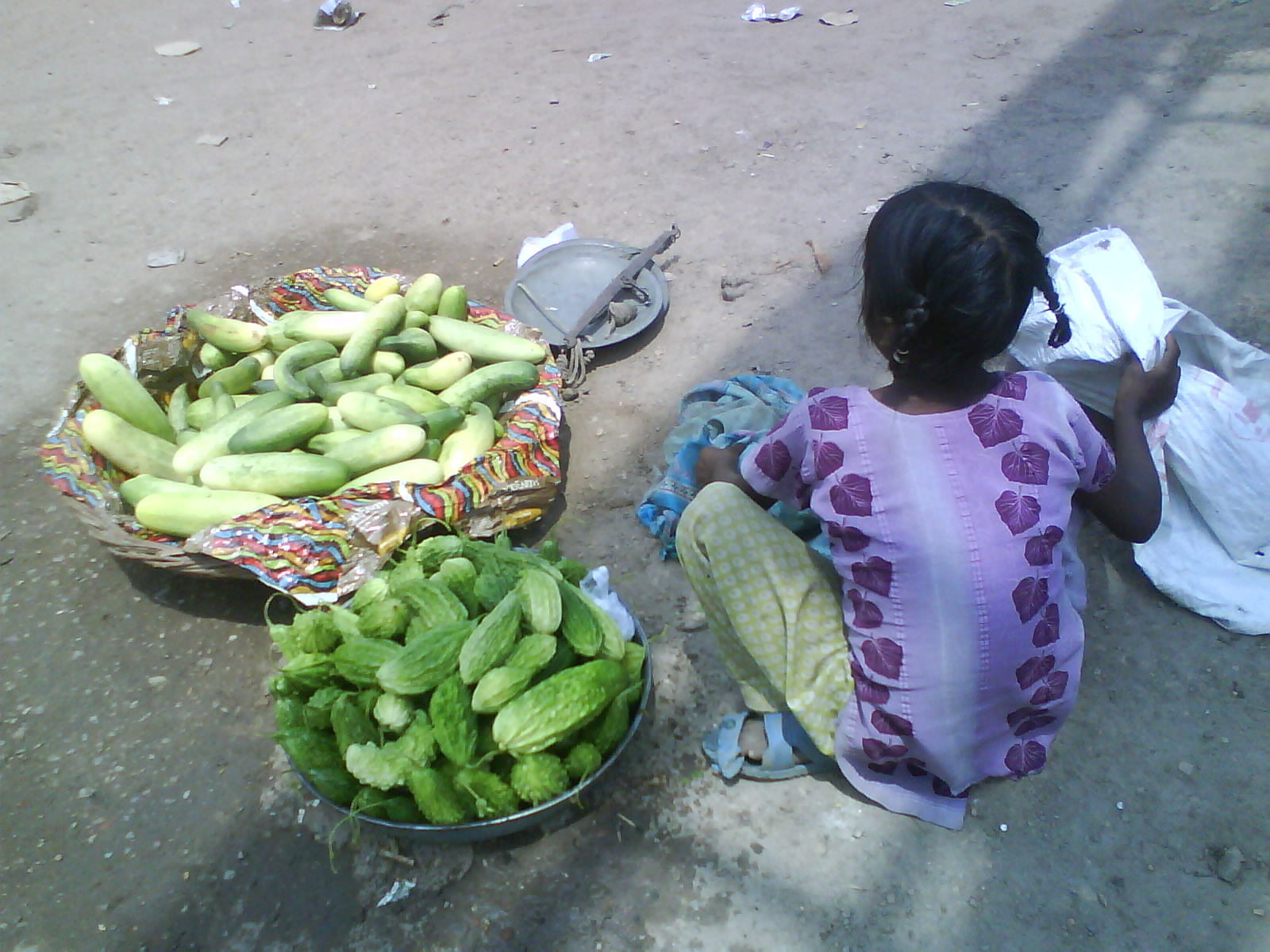 A Child Street Vendor from India(Garhmukteshwar)